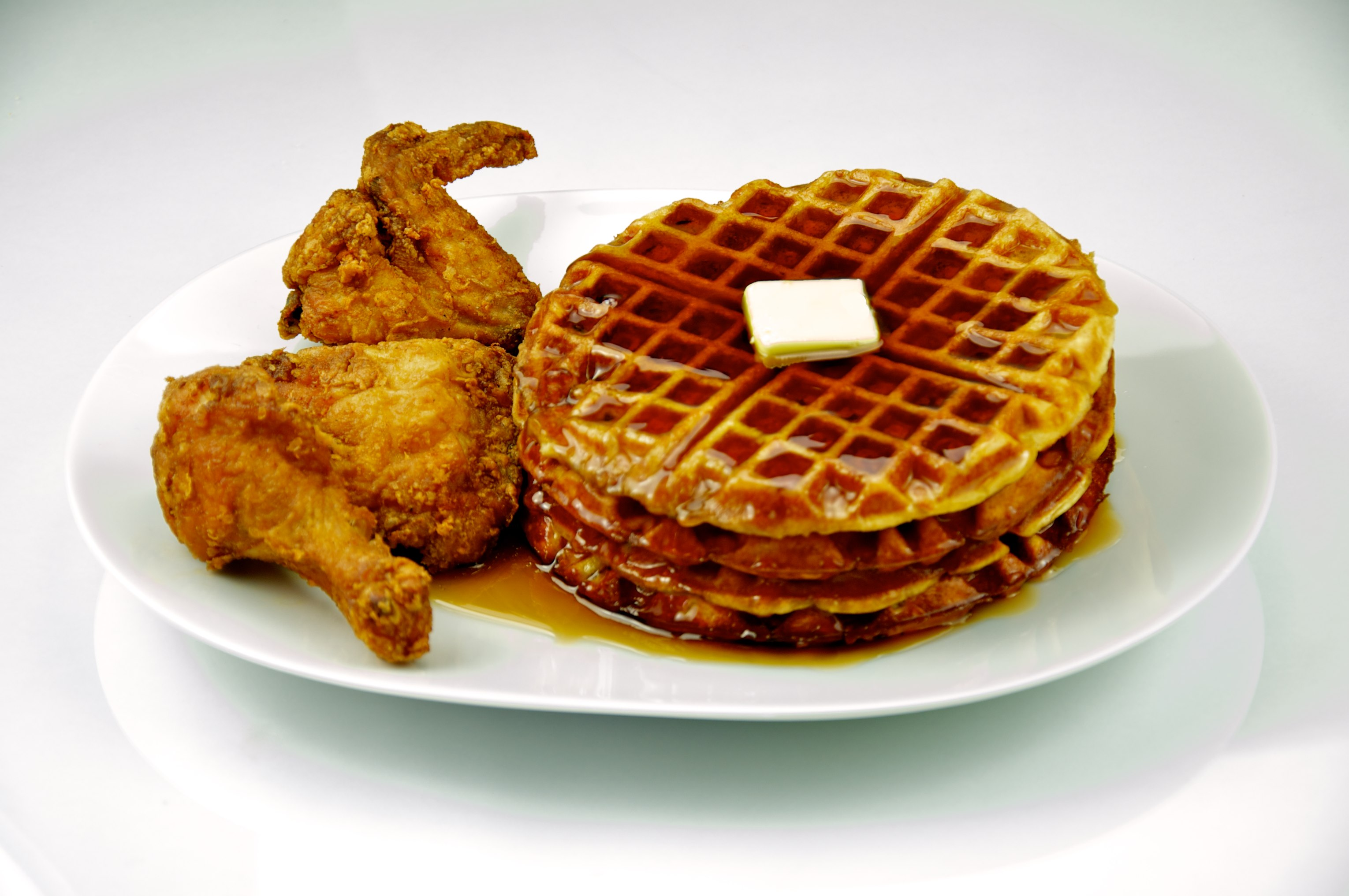 Fried chicken and waffles with maple syrup and butter on a white plate and shot on a white background.